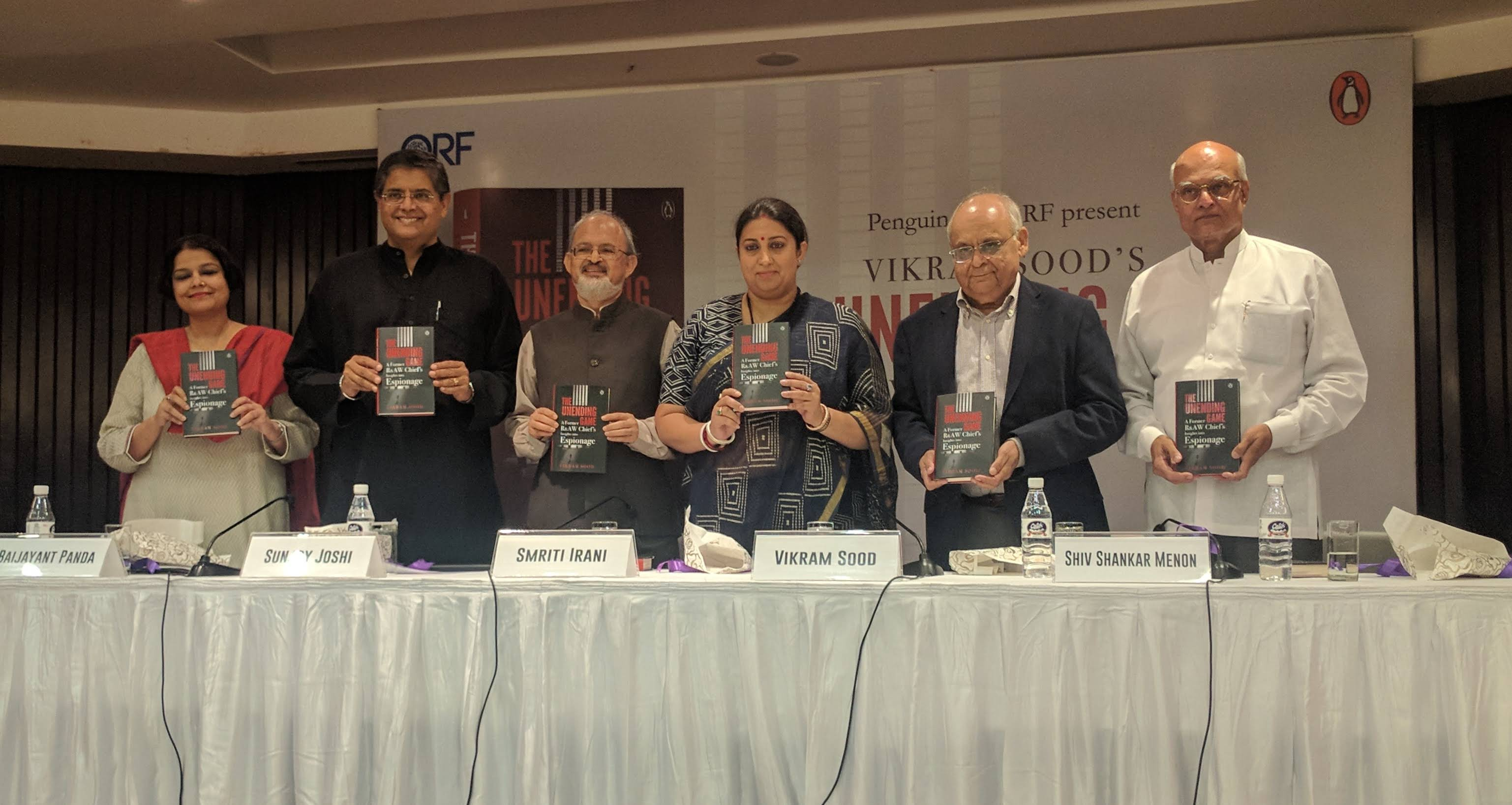 Book Launch of Vikram Sood (second from right), Intelligence Chief 2000 - 2003 , Research and Analysis Wing, India. Book launch at India International Center, New Delhi.